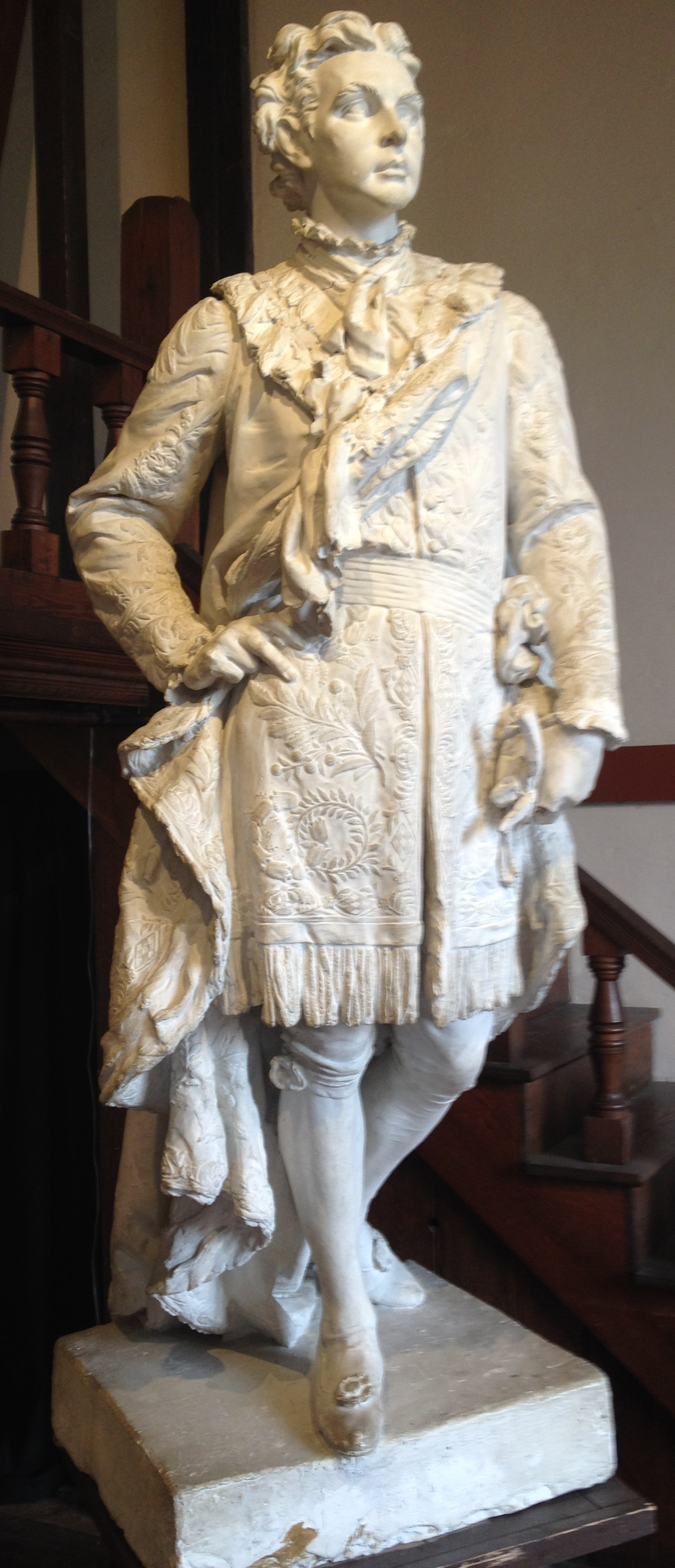 Statue of King Ludwig II of Bavaria (1868) by Elisabet Ney, at the Elisabet Ney Museum in Austin, Texas